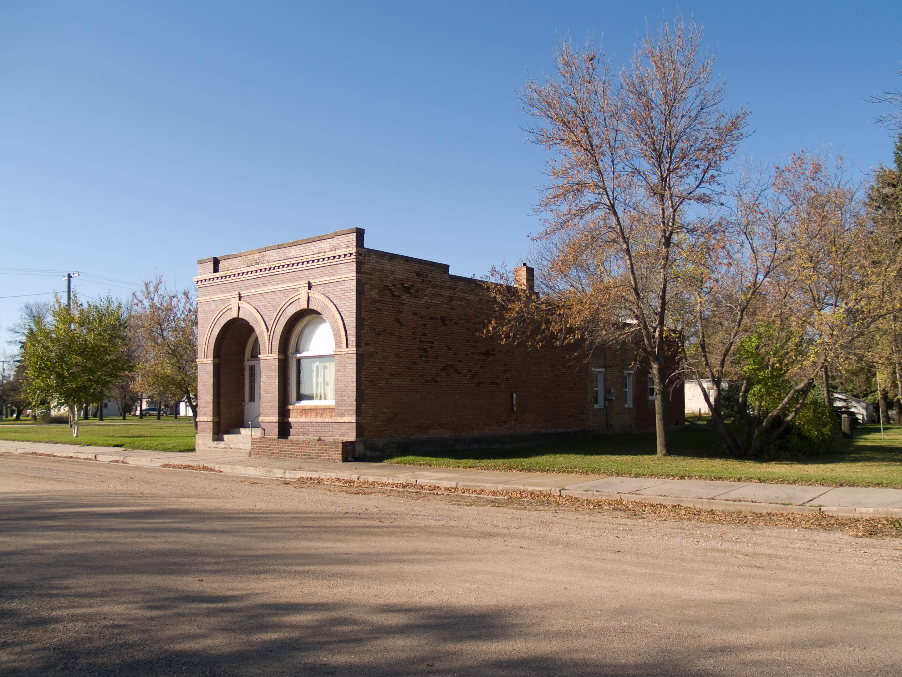 Rogers, North Dakota